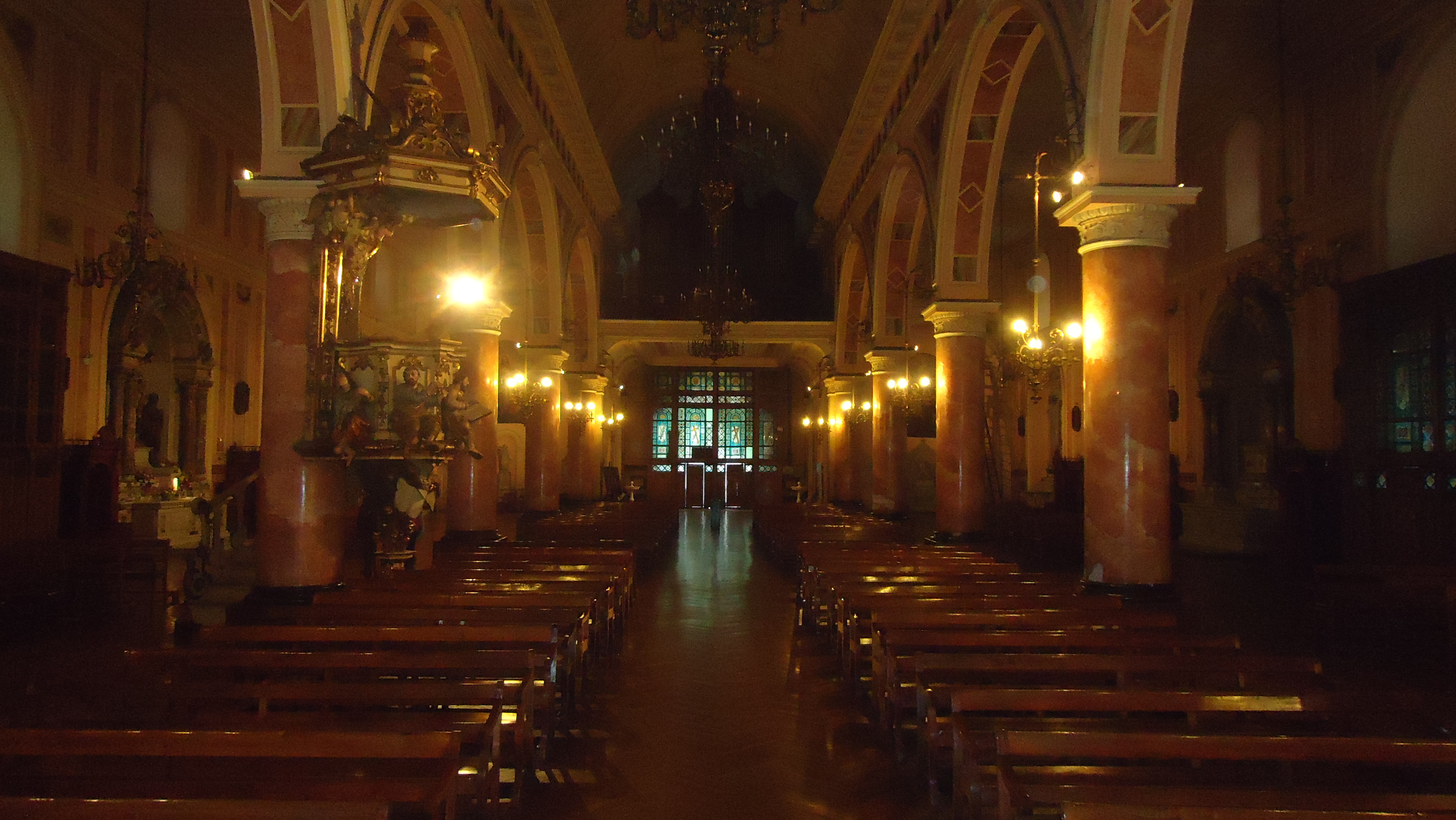 INTERIOR 3